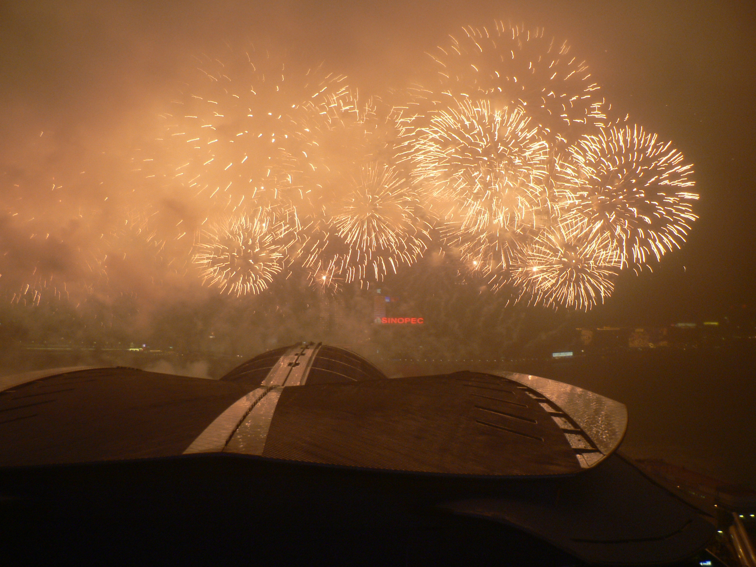 Hong Kong Lunar New Year Fireworks 2007, Author: KC Kong , own creation